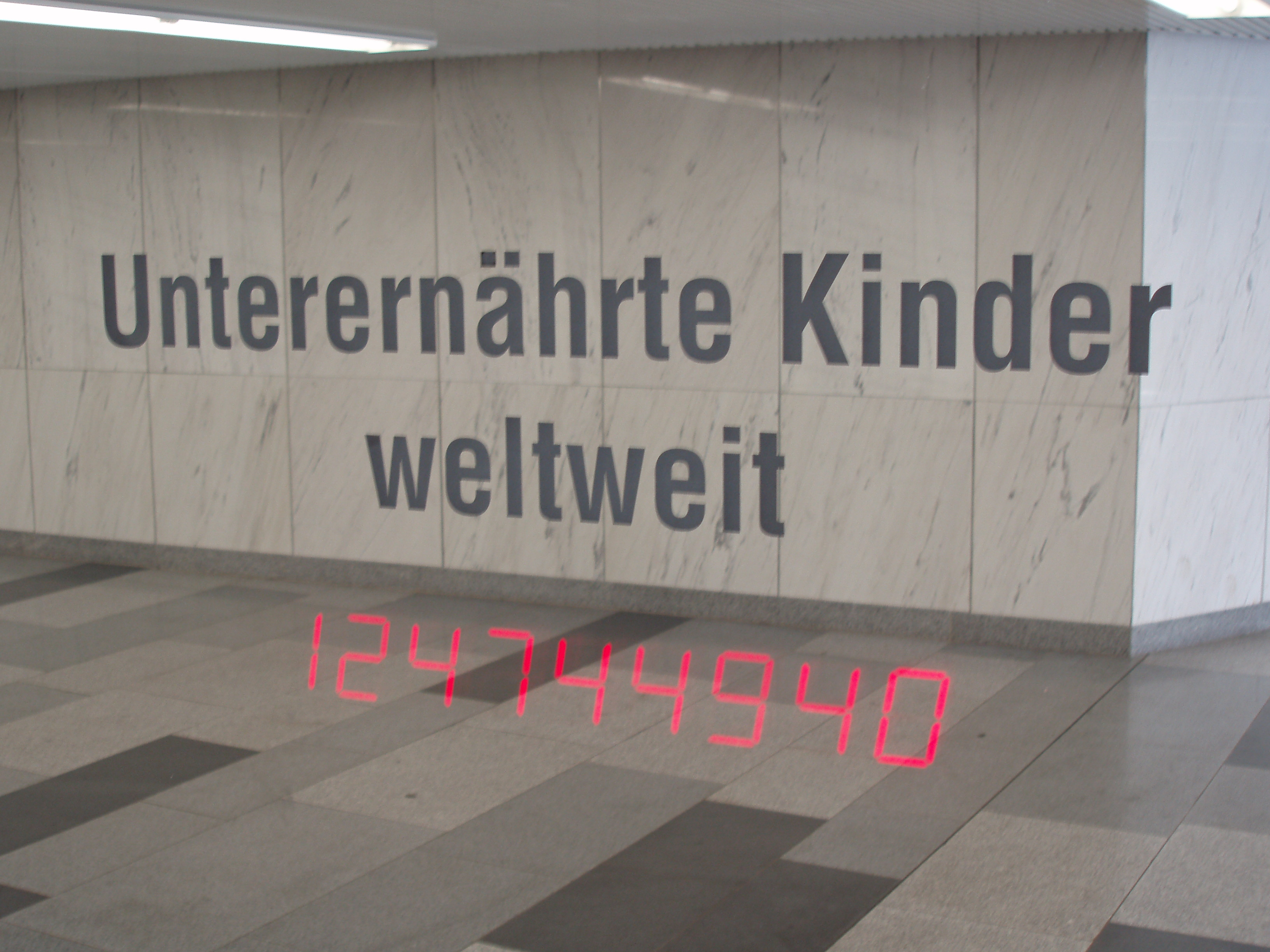 One factoid at the Project Pi in Vienna (near Karlsplatz, Secession)